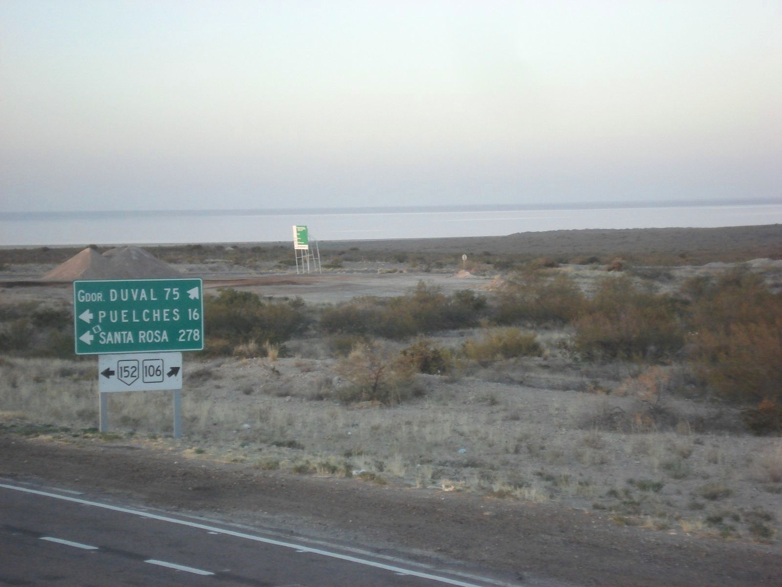 La Amarga lagoon in La Pampa Province, Argentina.